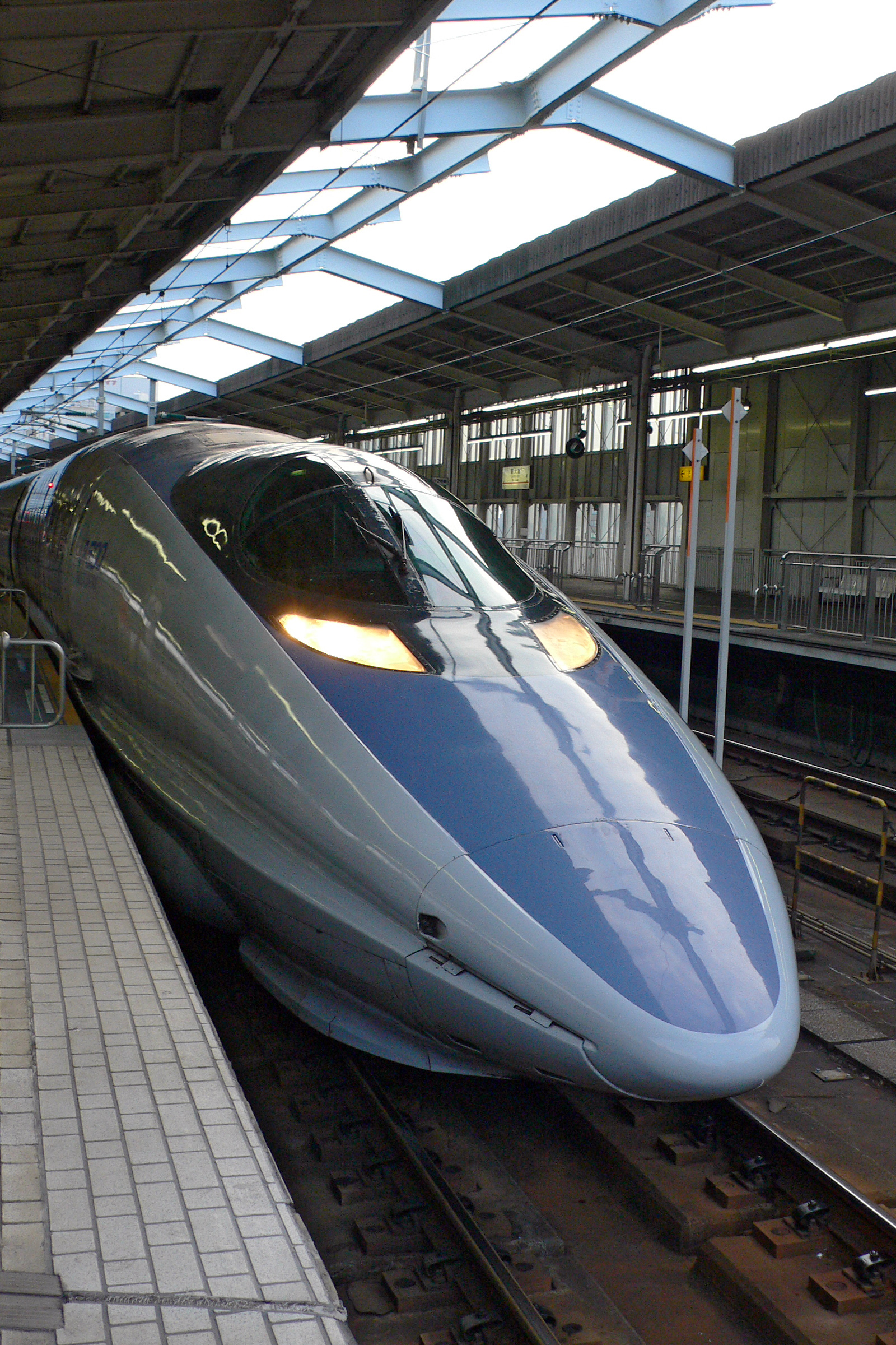 Shinkansen 500 Series at Shin-Osaka Station